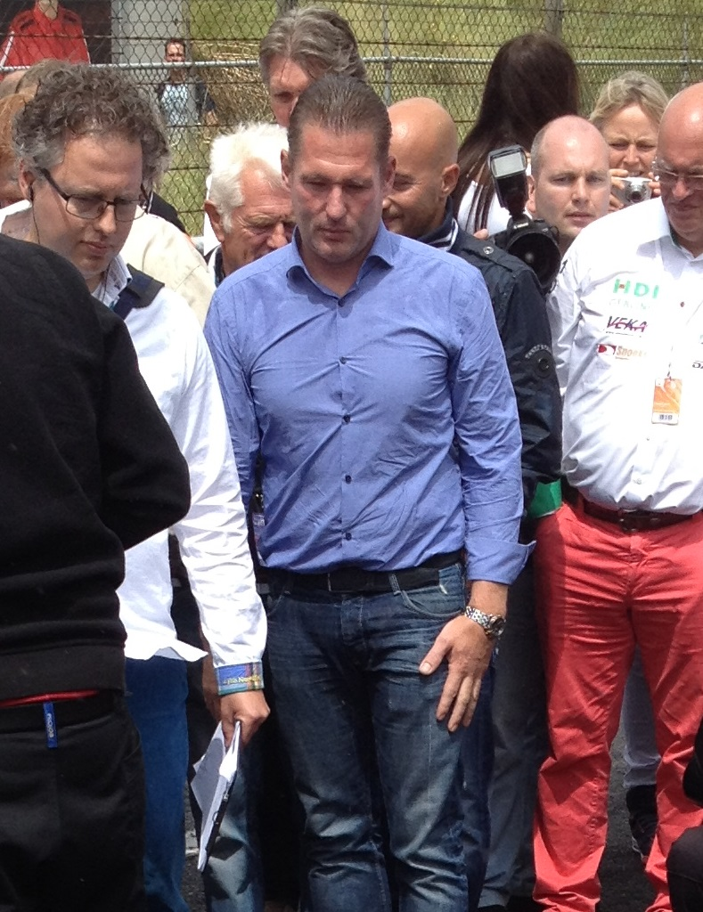 Jos Verstappen at Circuit Park Zandvoort on the grid of the 2014 Zandvoort Masters.